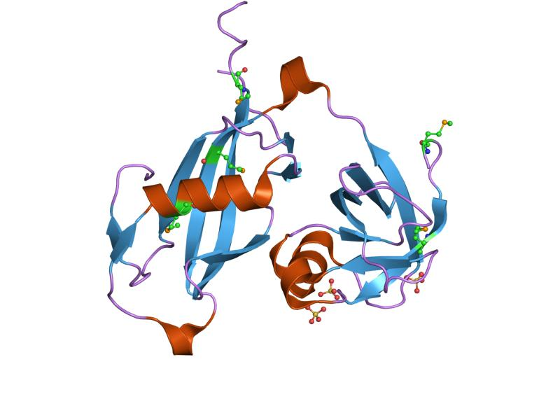 Cartoon representation of the molecular structure of protein registered with 1qcs code.